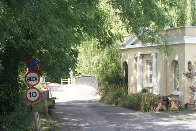 Thorncroft Drive This road leads to Thorncroft Manor, and I presume that the building to the right of photograph was, originally, a gate house to the Manor.